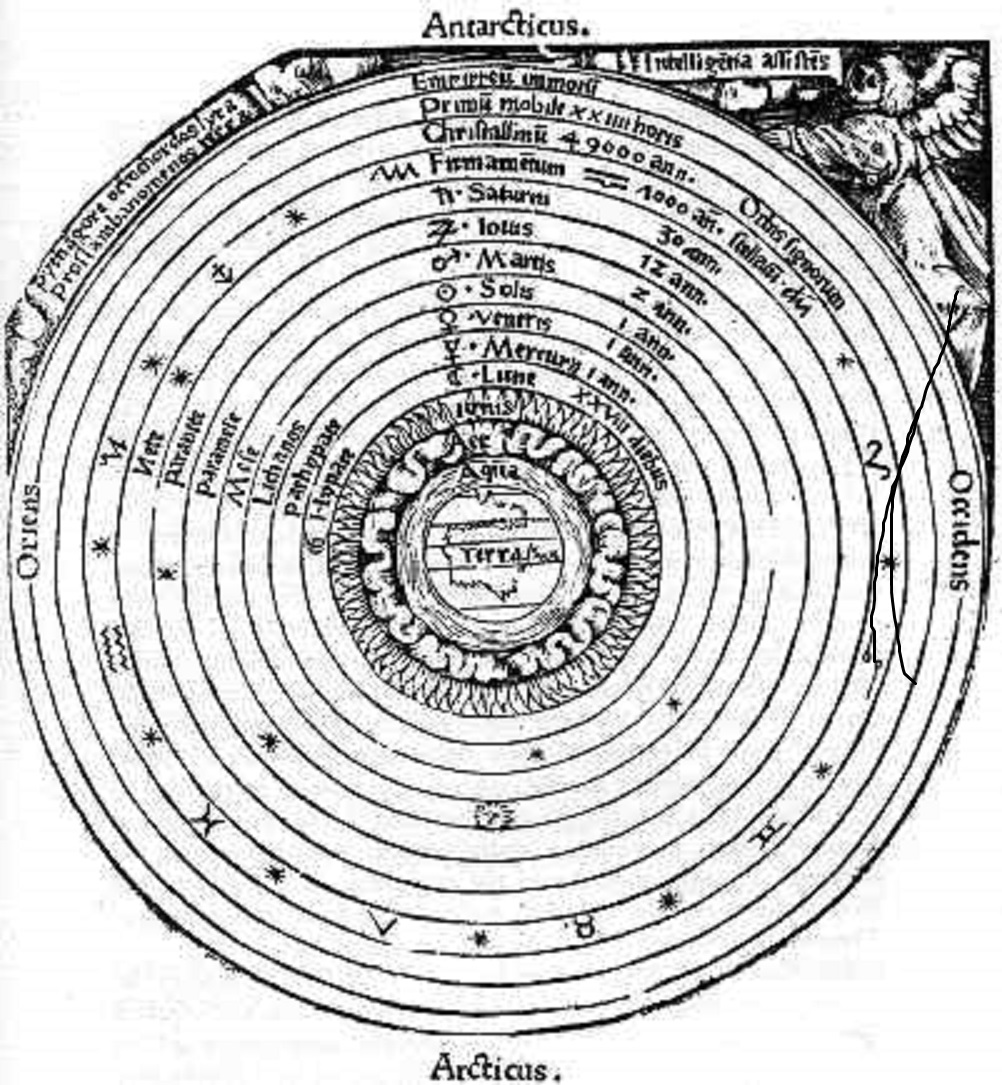 Image depicting Aristotelian Universe